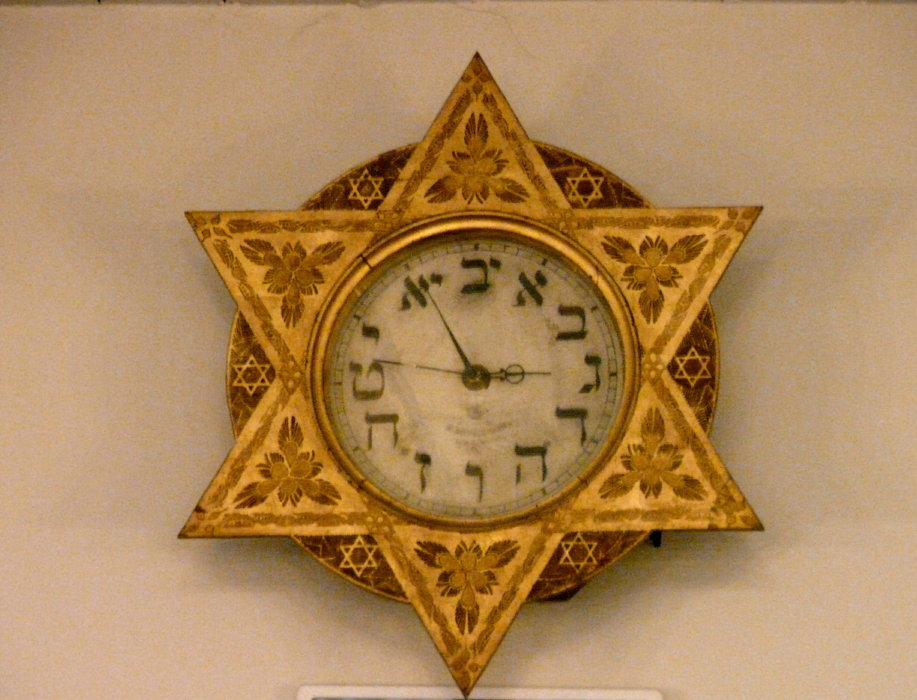 Clock Gerard Dou Synagogue Amsterdam